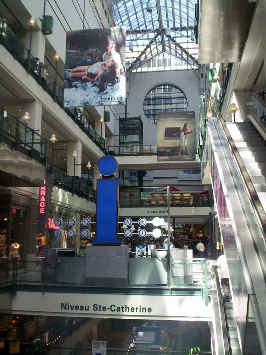 Centre Eaton, Underground city, Montreal